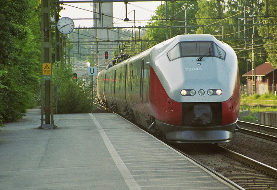 Trollhättan's train station. Train 397 (Series 73B) coming from Oslo (NO) in order to leave the station for Gothenburg (SE).